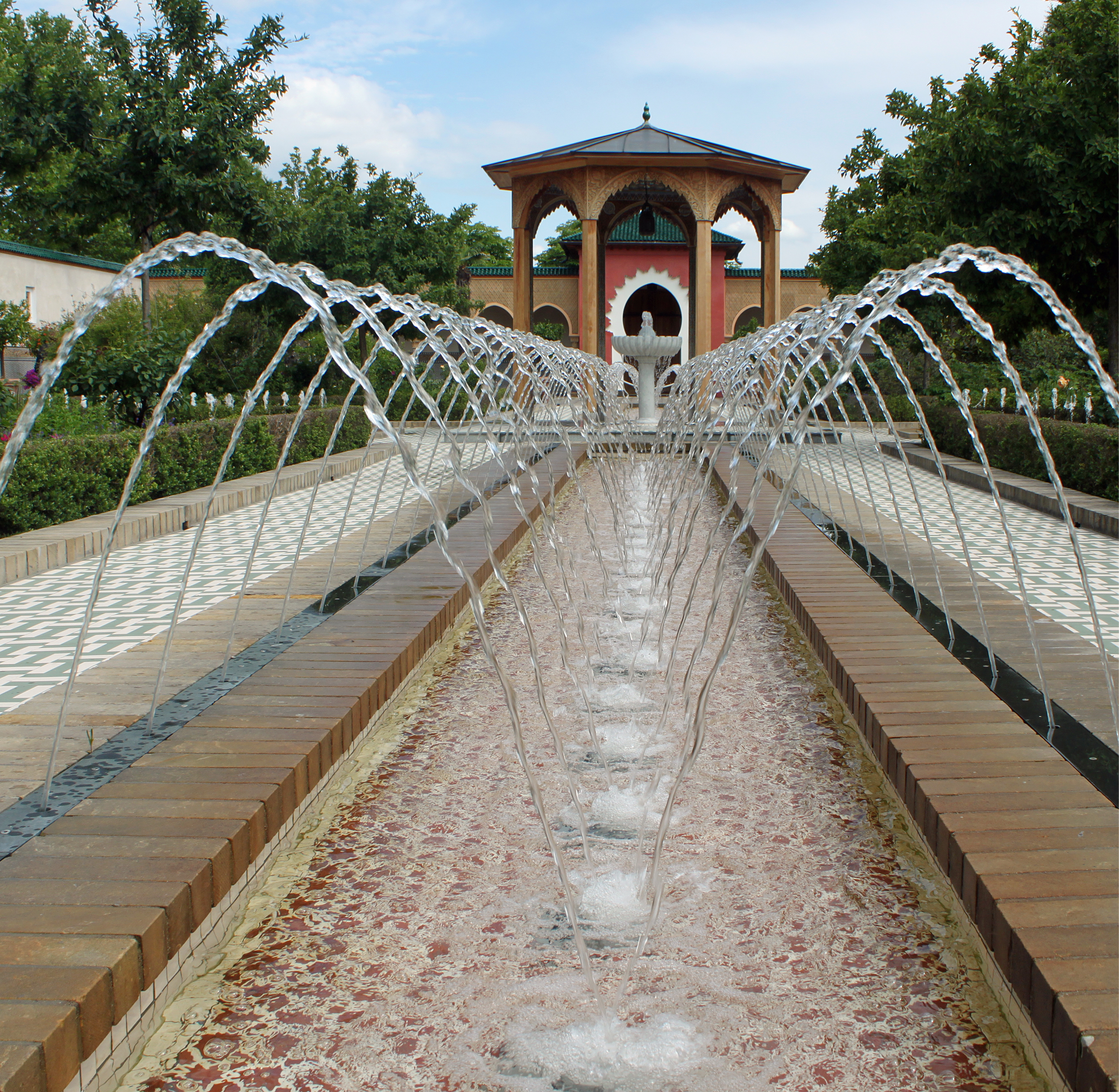 Oriental Garden, Gardens of the world, Berlin-Marzahn, Germany.